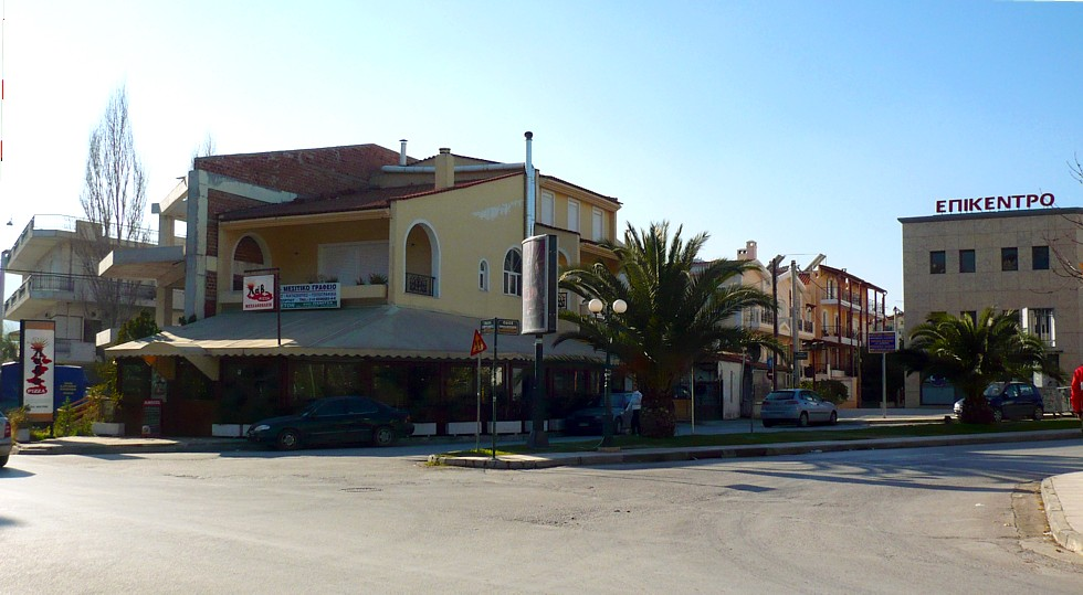 The picture depicts the center of Gerakas.